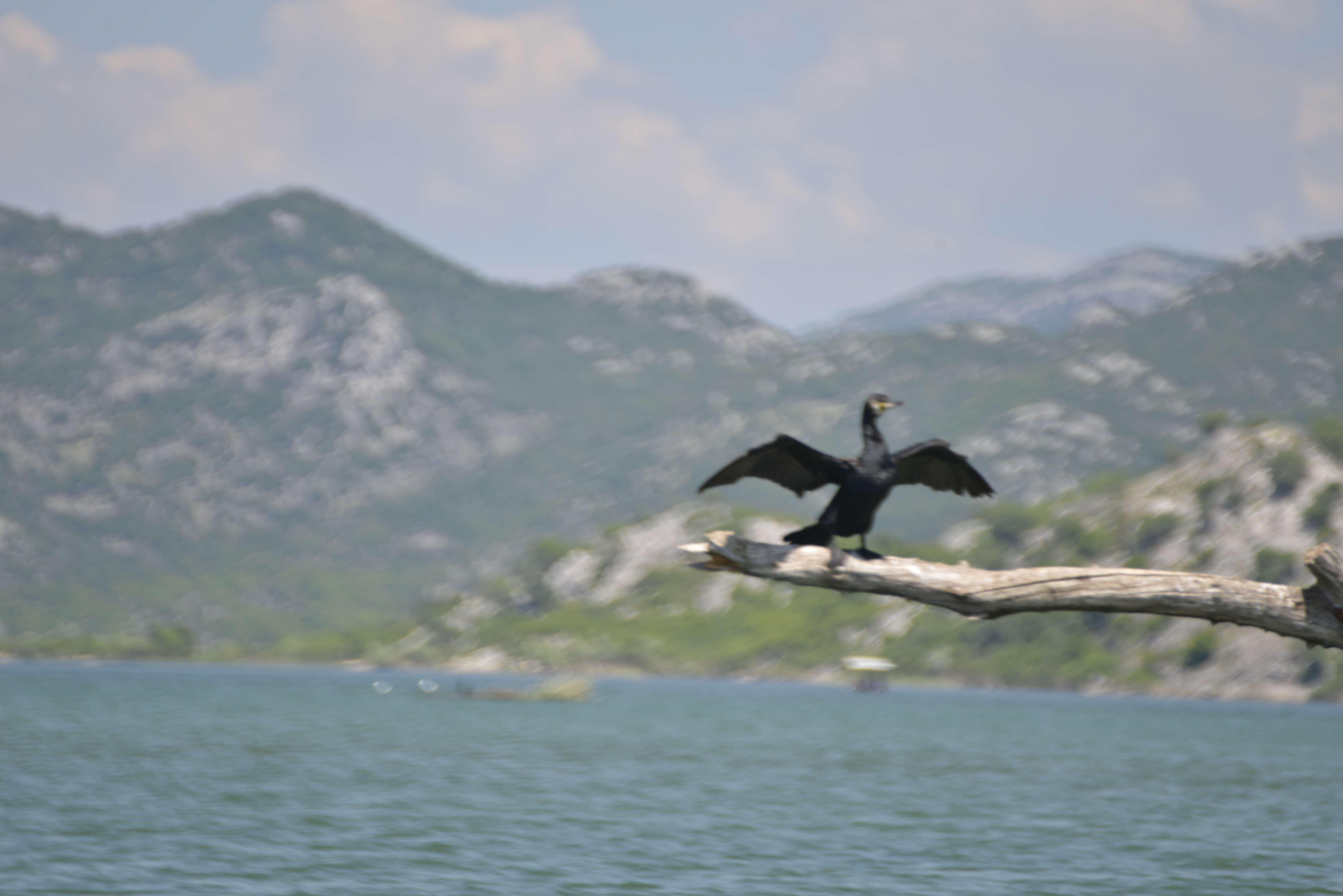 Skadar Lake, Montenegro